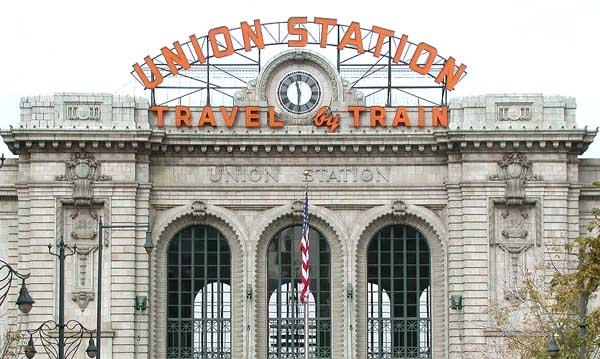 Front exterior of Union Station in downtown Denver (taken Oct. 11, 2004) © 2004 Matthew Trump